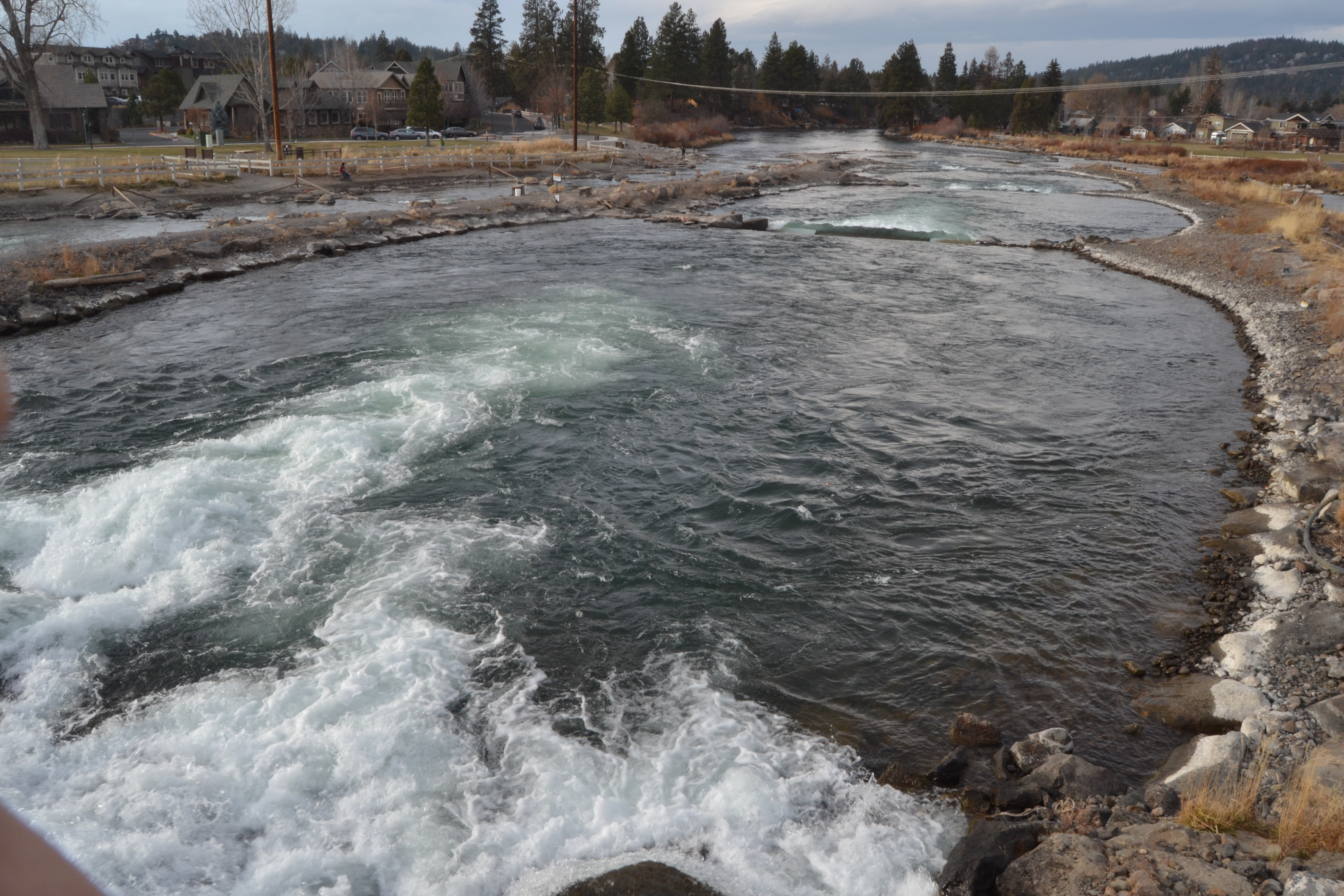 This is the middle channel.